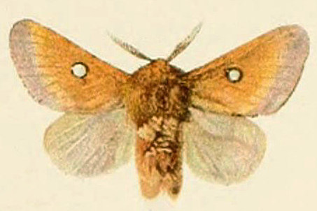 Eriogaster catax British ami European Butterflies anH Moths.